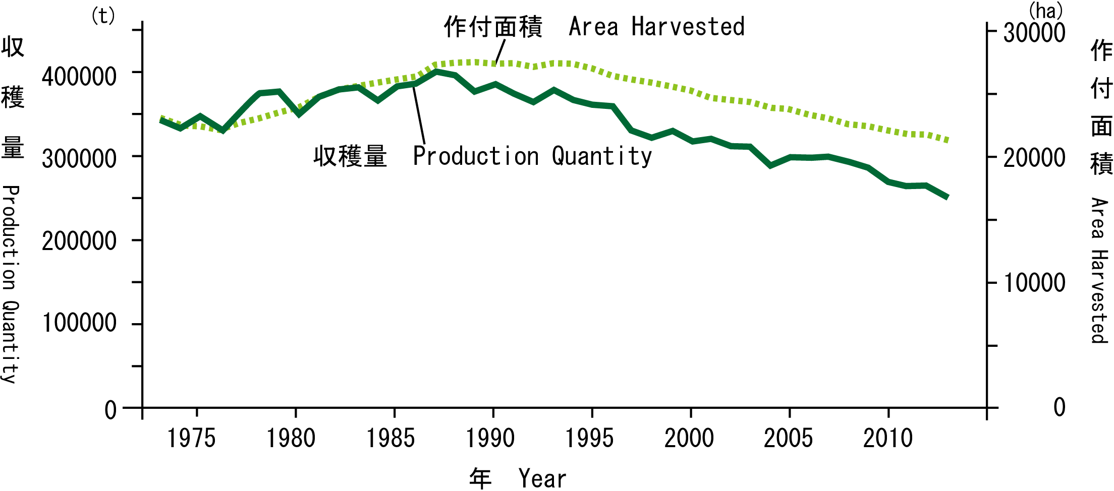 These graphs show production quantity and area harvested of spinach in Japan from 1973 to 2013. Data source is e-Stat, powered by Statistics Bureau, Ministry of Internal Affairs and Communications, Japan.